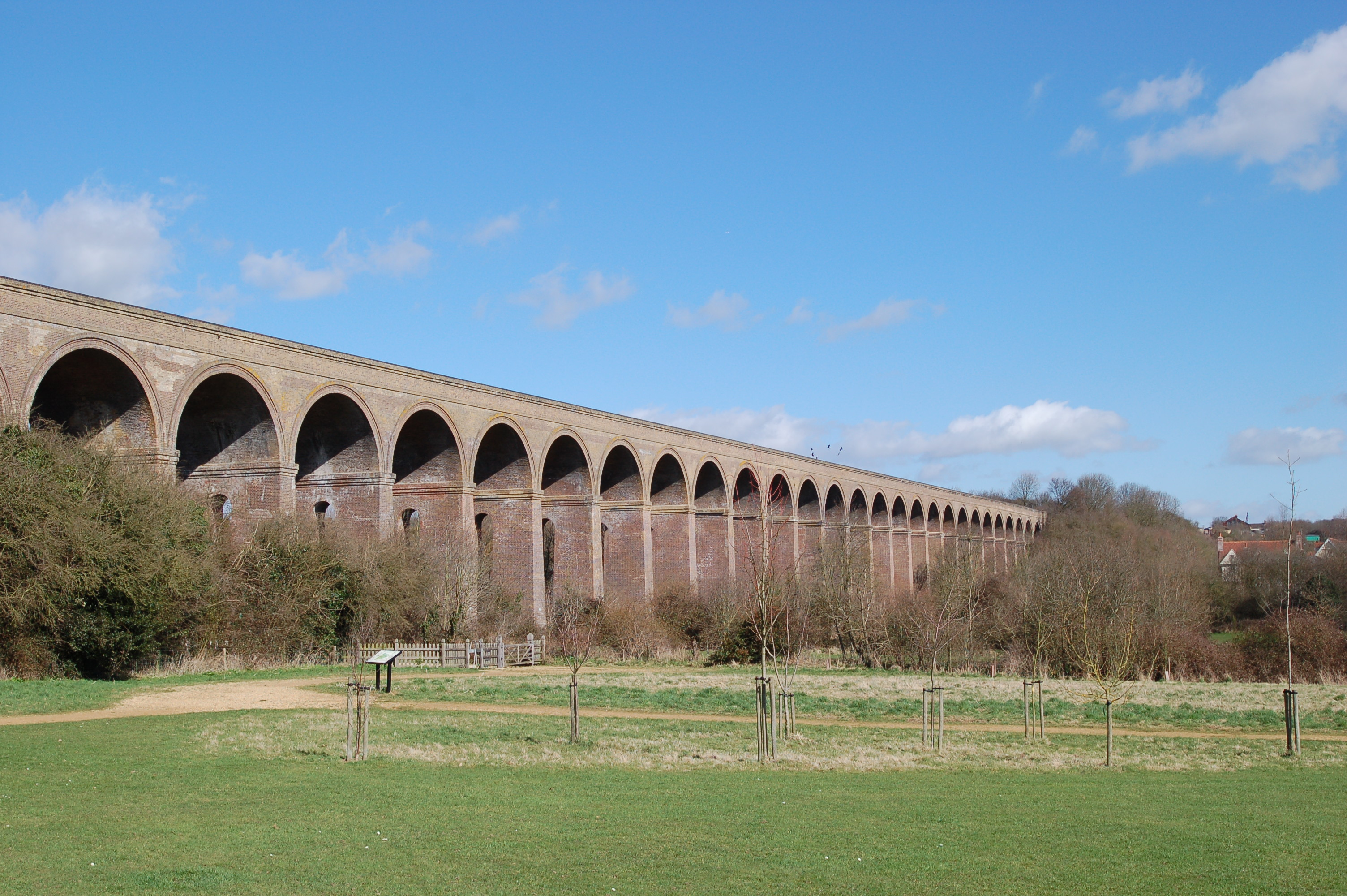 Chappel Viaduct and Millennium Green, Essex, UK